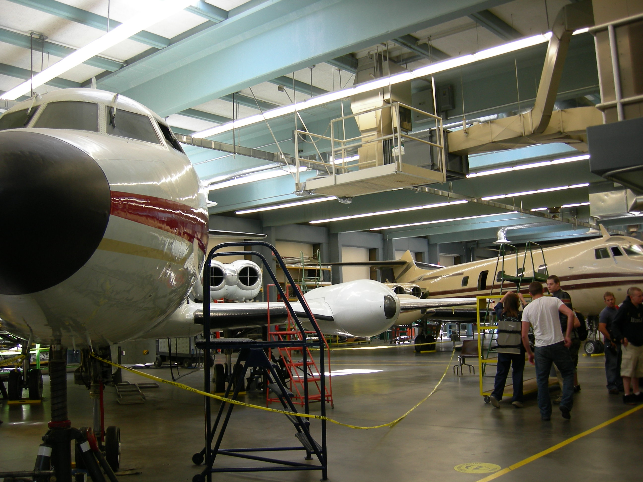 Aircraft maintenance training facility, South Seattle Community College, Seattle, Washington.